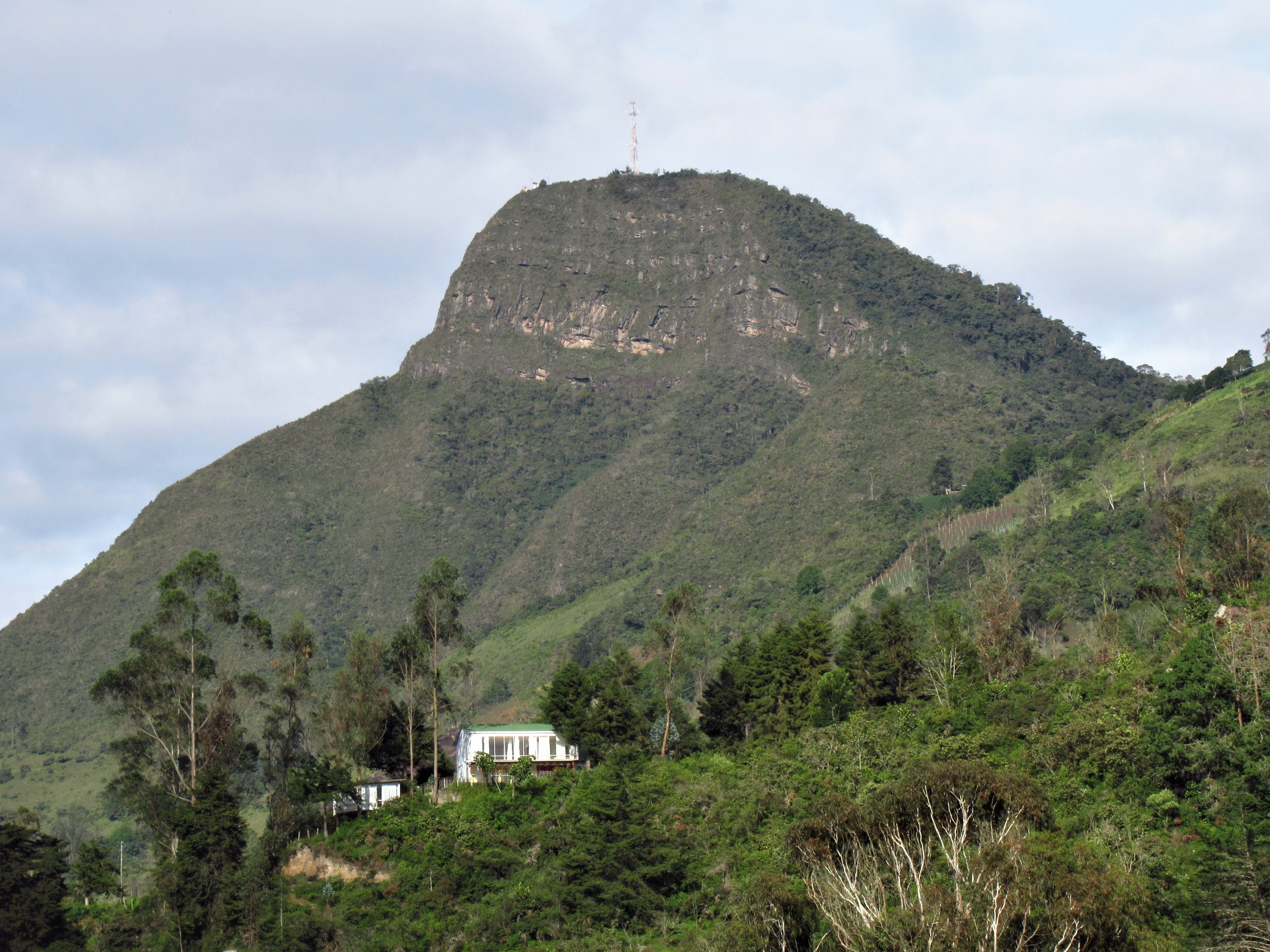 Ubaque